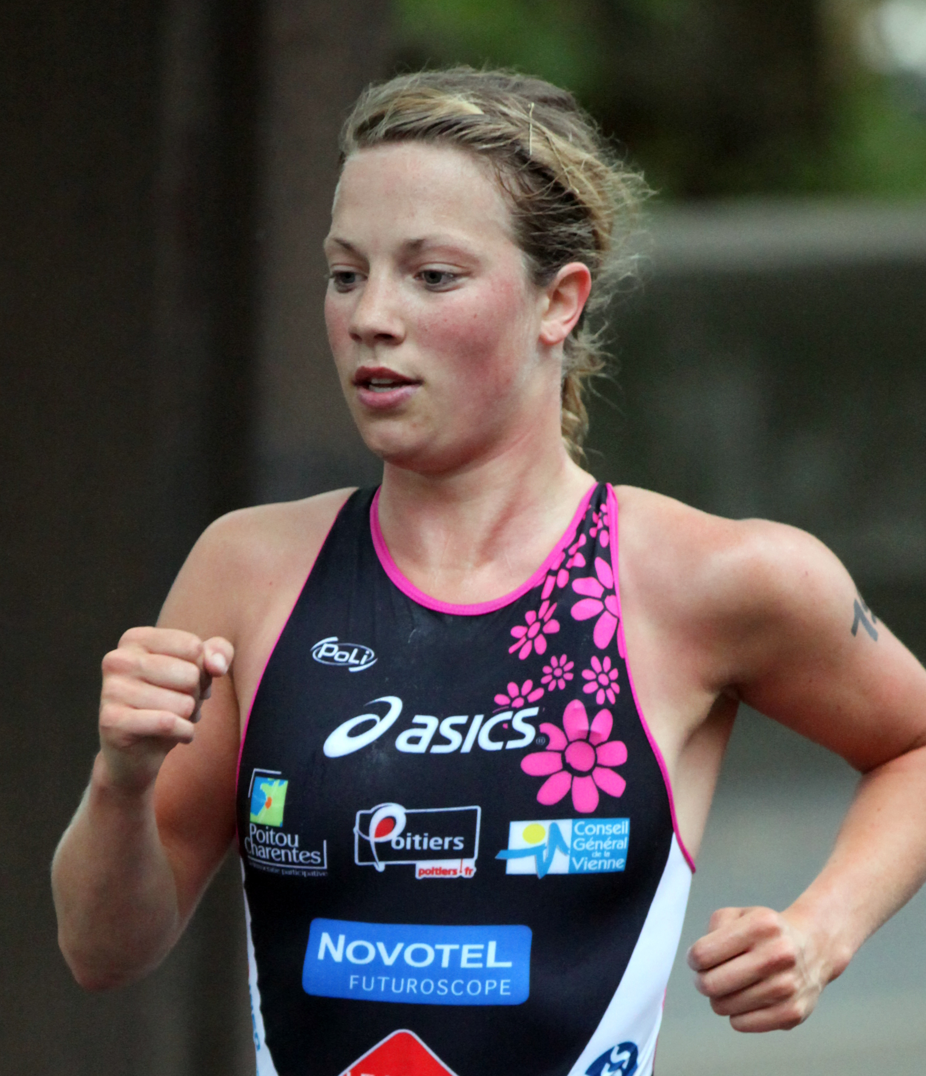 Holly Lawrence at the Grand Prix triathlon (Lyonnaise des Eaux) in Paris, 2011.